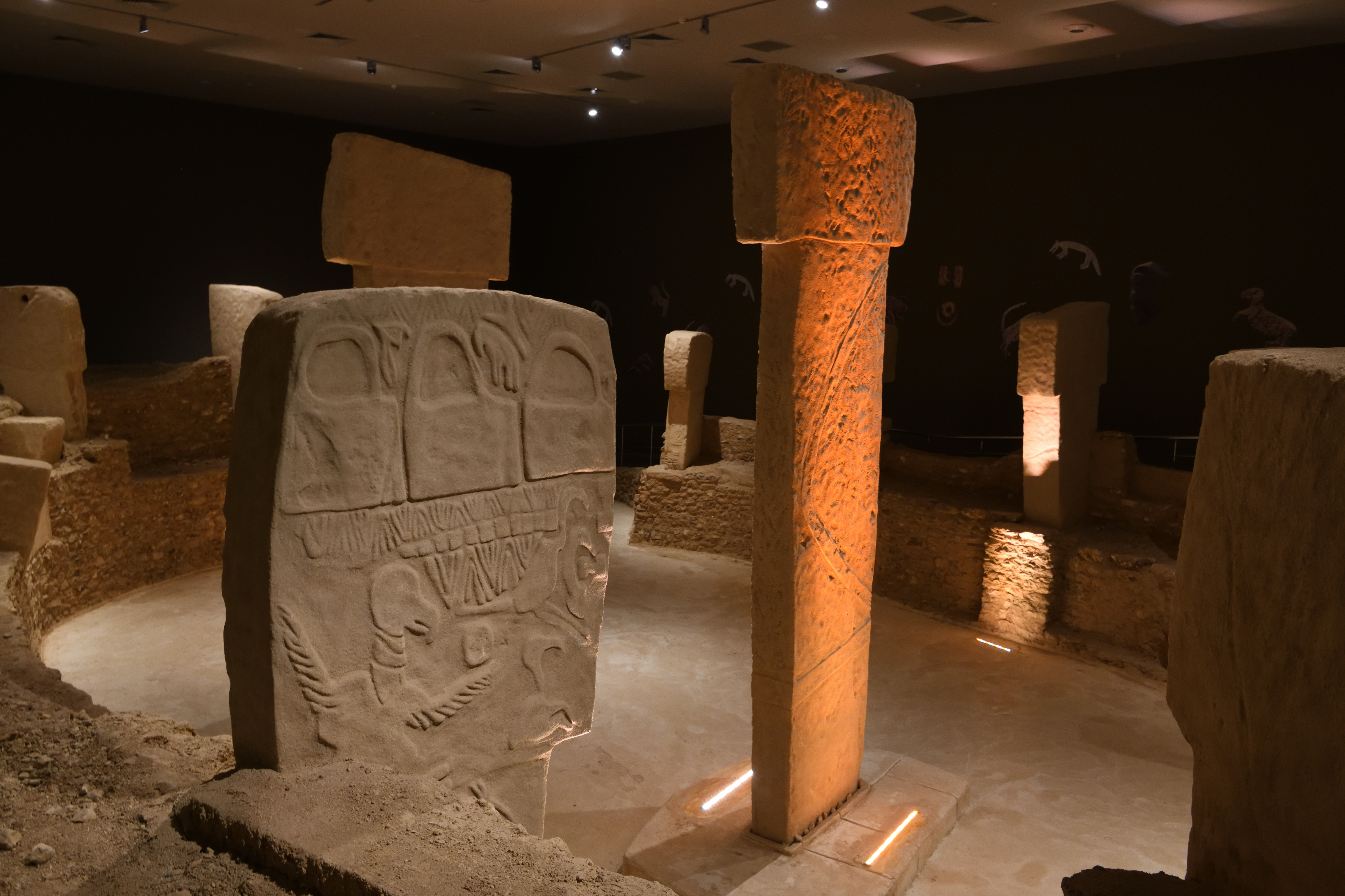 One of some pictures of (details in) Enclosure D, by far the best preserved of the so far excavated monumental megalithic buildings. In comparison to Building C there was no post-use destruction of the structure. This oval-shaped building has a (east-west) diameter of 20 metres and features some 11 T-shaped monoliths, though this number could increase following completion of excavations in its northern part. The two central T-pillars are slotted into two carved pedestals and its floor was formed by smoothing the natural limestone bedrock (akin to Building C). The two central pillars of Building D provide clear evidence for the anthropomorphic character of the T-pillars, these two monoliths carrying low relief representations of arms and hands, and with depictions (also low relief) of belts and fox fur loincloths. These two central pillars are preserved to an original height of 5.5 meters and they still stand in-situ. The eastern T-pillar appears to carry a fox under its arm on its western broad side. As observed in Building C, many of the T-pillars incorporated into its oval-plan wall feature images of wild animals, birds and insects. It is highly likely that these depictions relate early Neolithic mythological scenes. It dates from the 10th-9th mill. BC In the museum in Urfa there is a replica that one can walk around in.